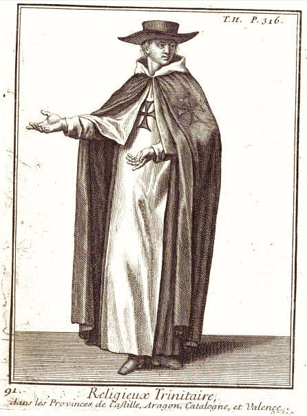 trinitarian brother